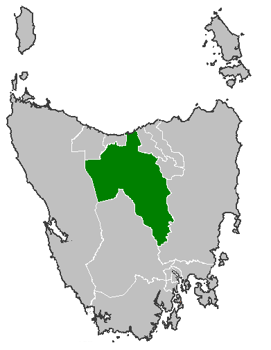 This is a representation of the Rowallan electorate. A more detailed map and information about the exact boundary cross overs can be found at Tasmanian Electoral Commission Wesbite - Legislative Council